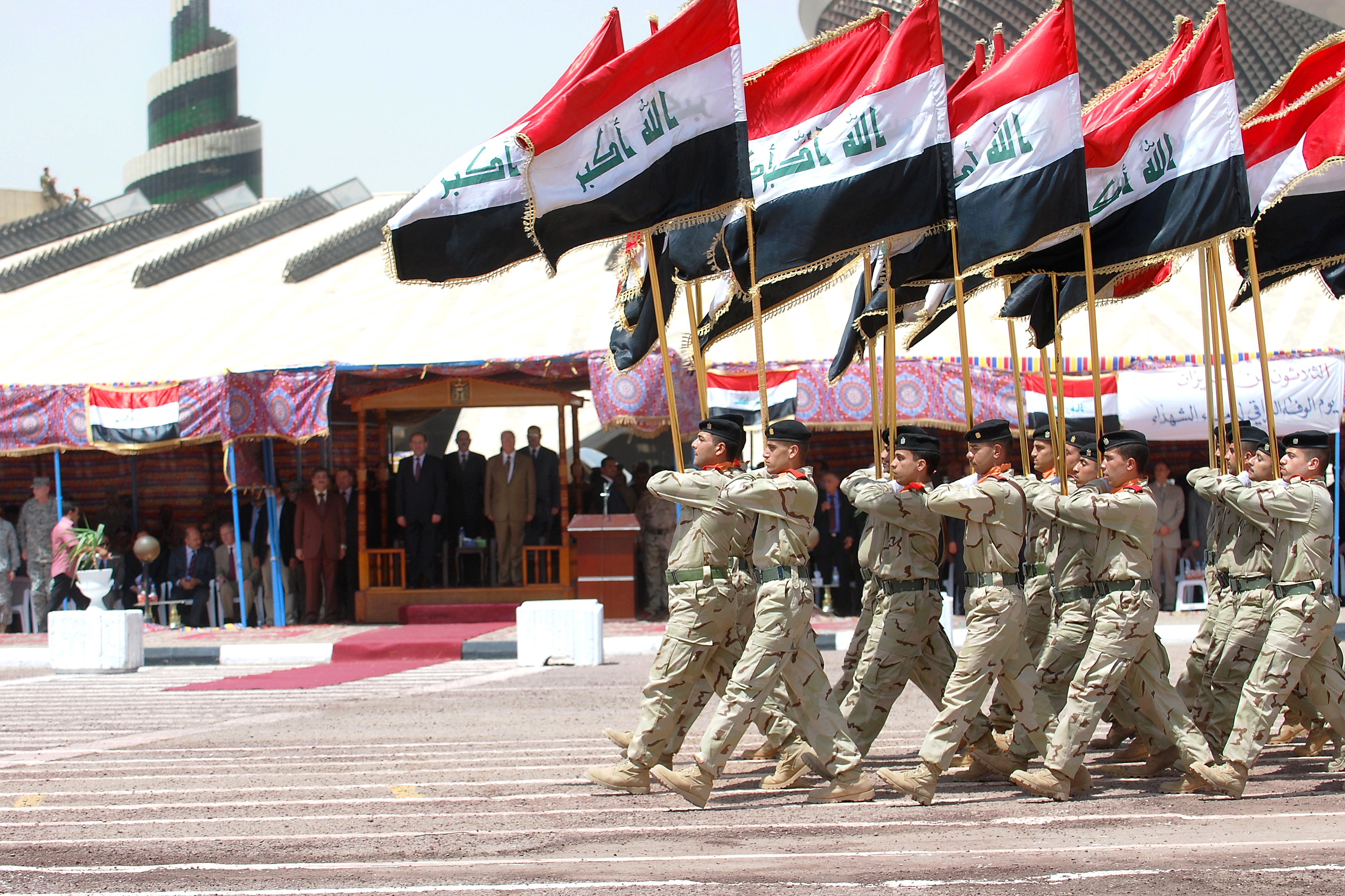 Iraqi government officials and U.S. military leaders look-on as Iraqi security forces passed for review representing the Iraqi military, police and civil leadership in Baghdad, June 30, 2009. The event marks the withdrawal of U.S. combat forces from Iraqi cities under a security agreement.